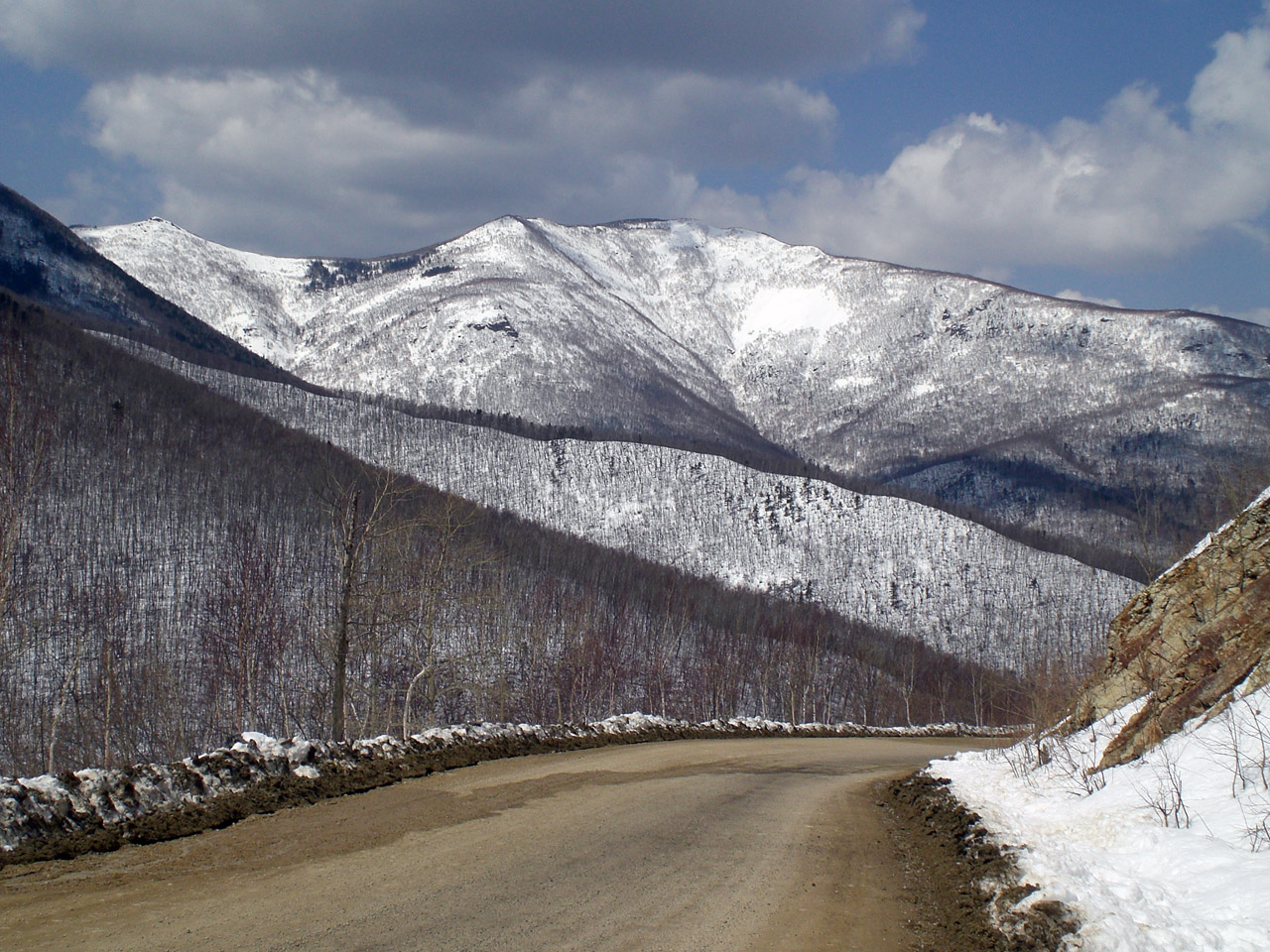 Yakut-gora Mtn. near Dalnegorsk